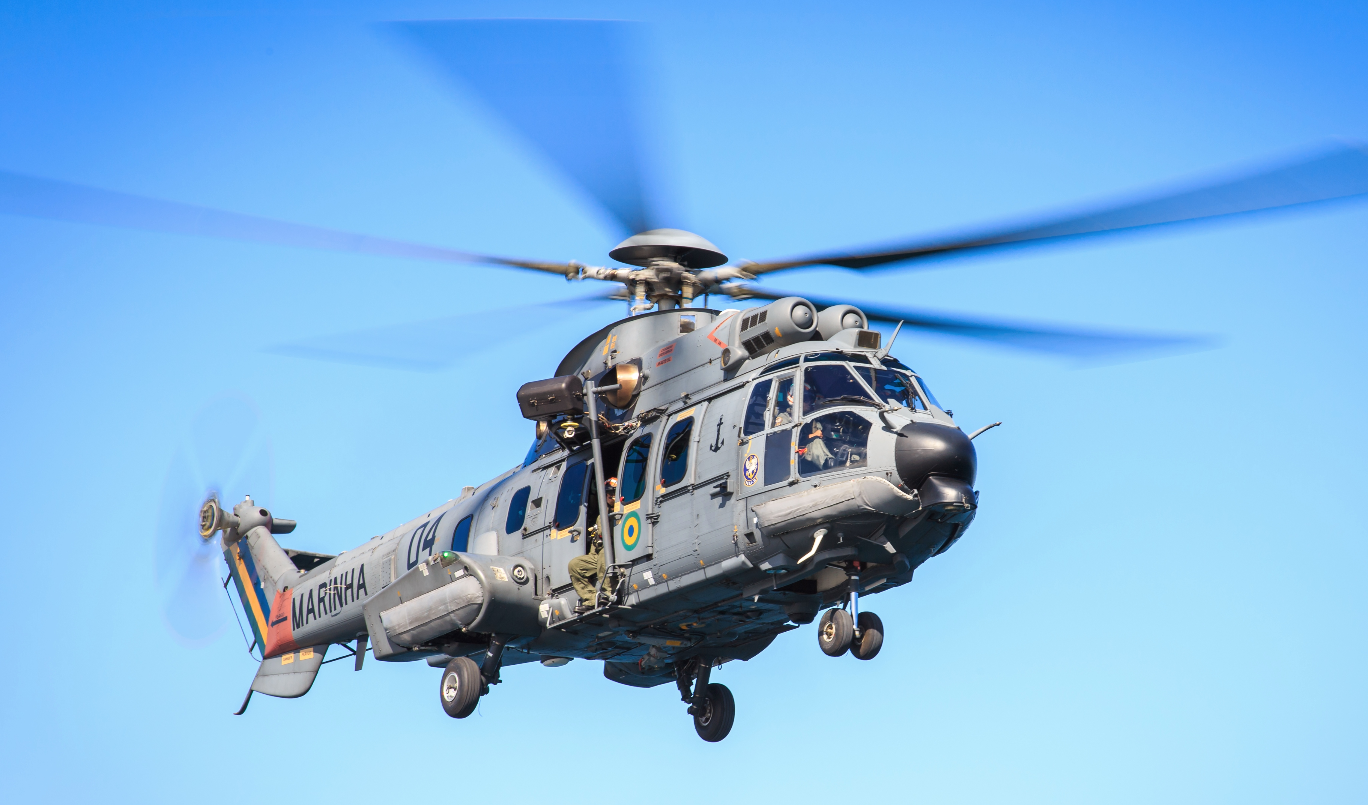 An Airbus EC725 Super Cougar in the Brazilian Navy